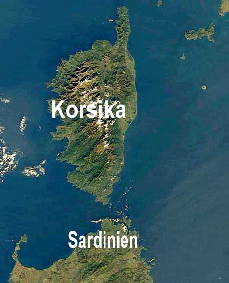 The Moderate-resolution Imaging Spectroradiometer (MODIS), flying aboard NASA's Terra satellite via Earth Observatory.